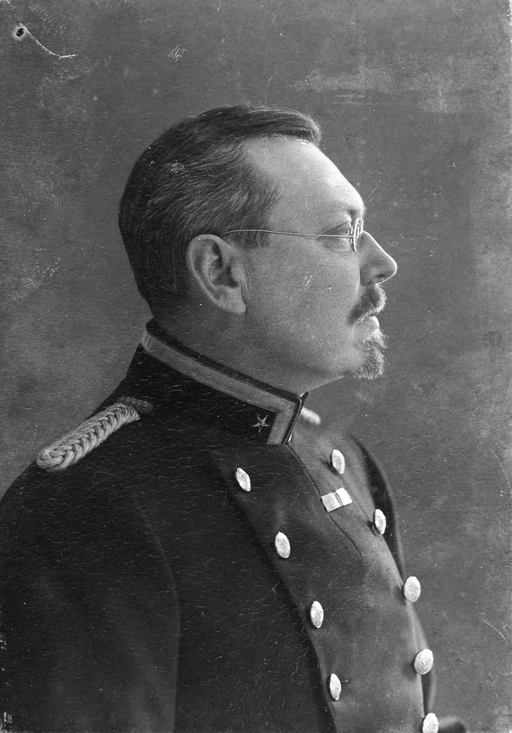 Josef Hammar in his military uniform as a doctor in service at the Skånska Dragonremimentet